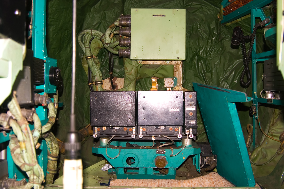 Tu-134.Cockpit.Plane nose. Under the control panel.